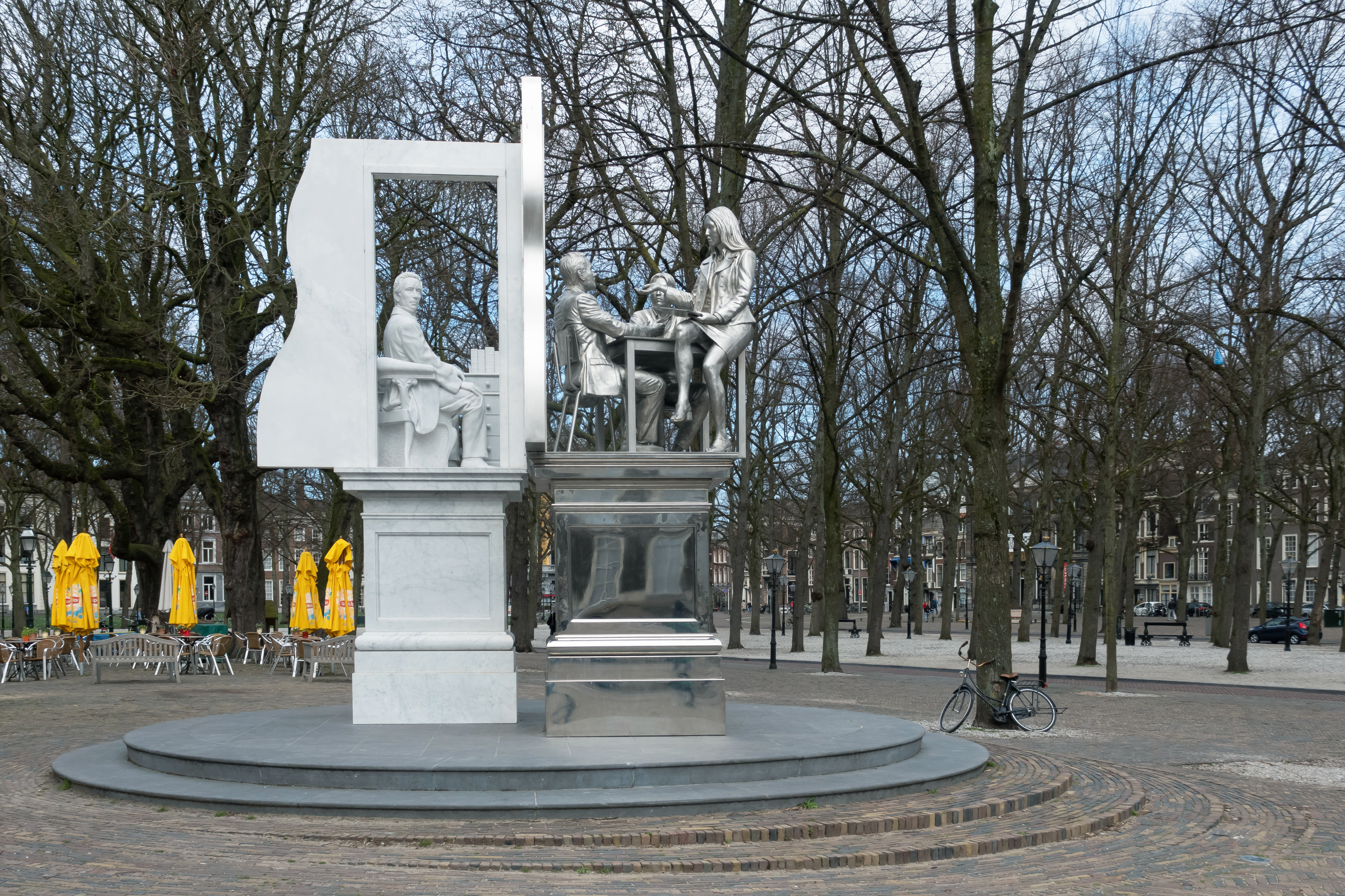 The Hague, the Thorbecke monument